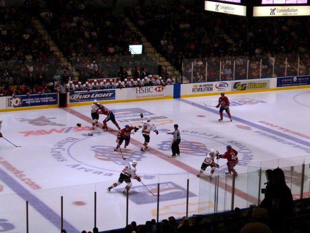 Rochester Americans vs. Binghamton Senators, the Gaustad,Thorburn, Paille line. That's Goose vs. Spezza there in the middle, and Thorburn starting a fight on the far side.